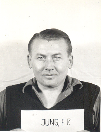 Ewin Jung as a witness during the Nuremberg Trials.